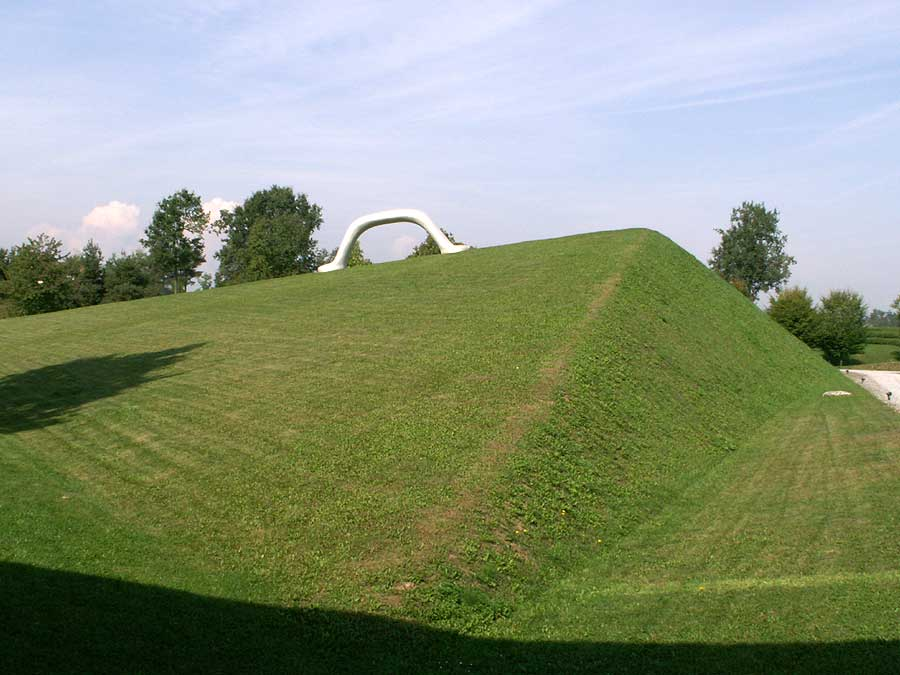 Österreichischer Skulpturenpark, Peter Weibel, The globe as a suitcase, 2004